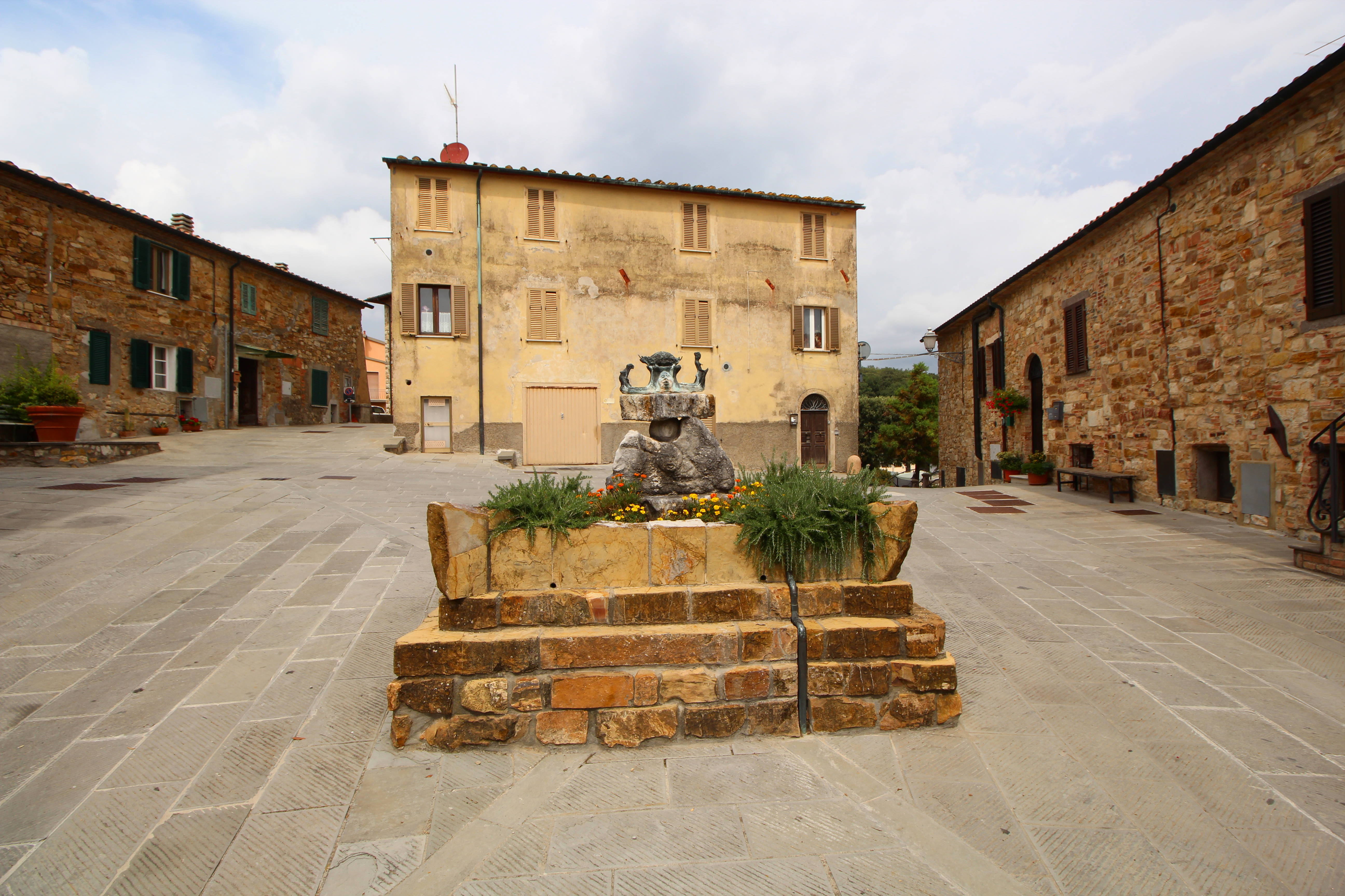 urban square Piazzetta della Torre, Monteverdi Marittimo, Province of Pisa, Tuscany, Italy